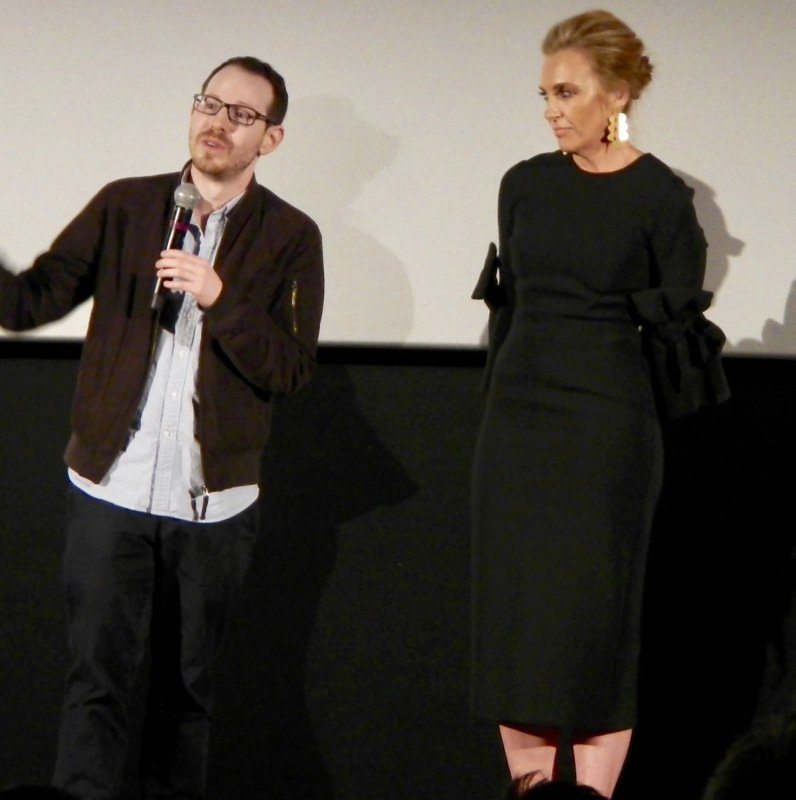 Hereditary director Ari Aster with Toni Collette at Sundance London UK